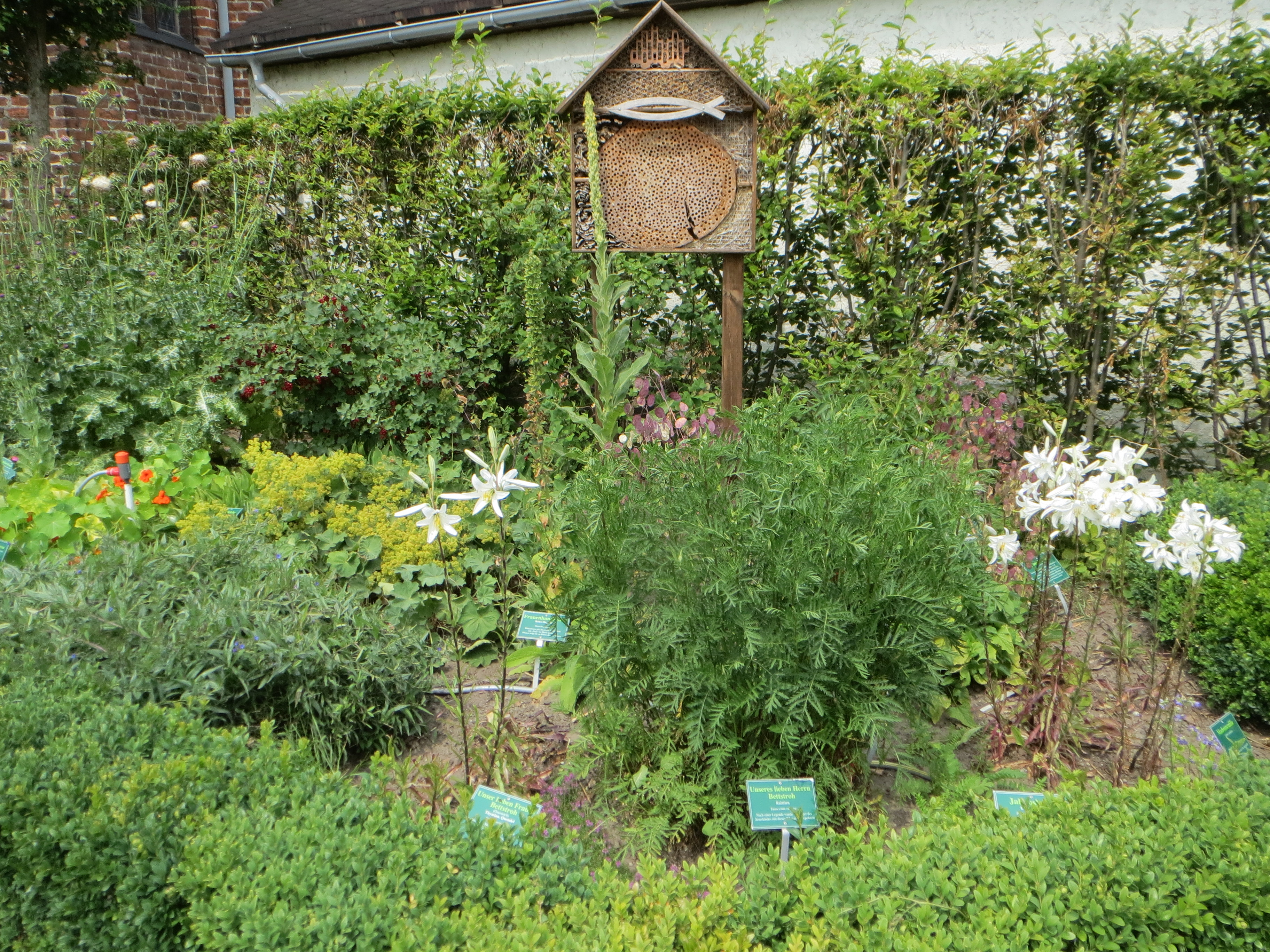 Niederdeutsches Bibelzentrum St. Jürgen